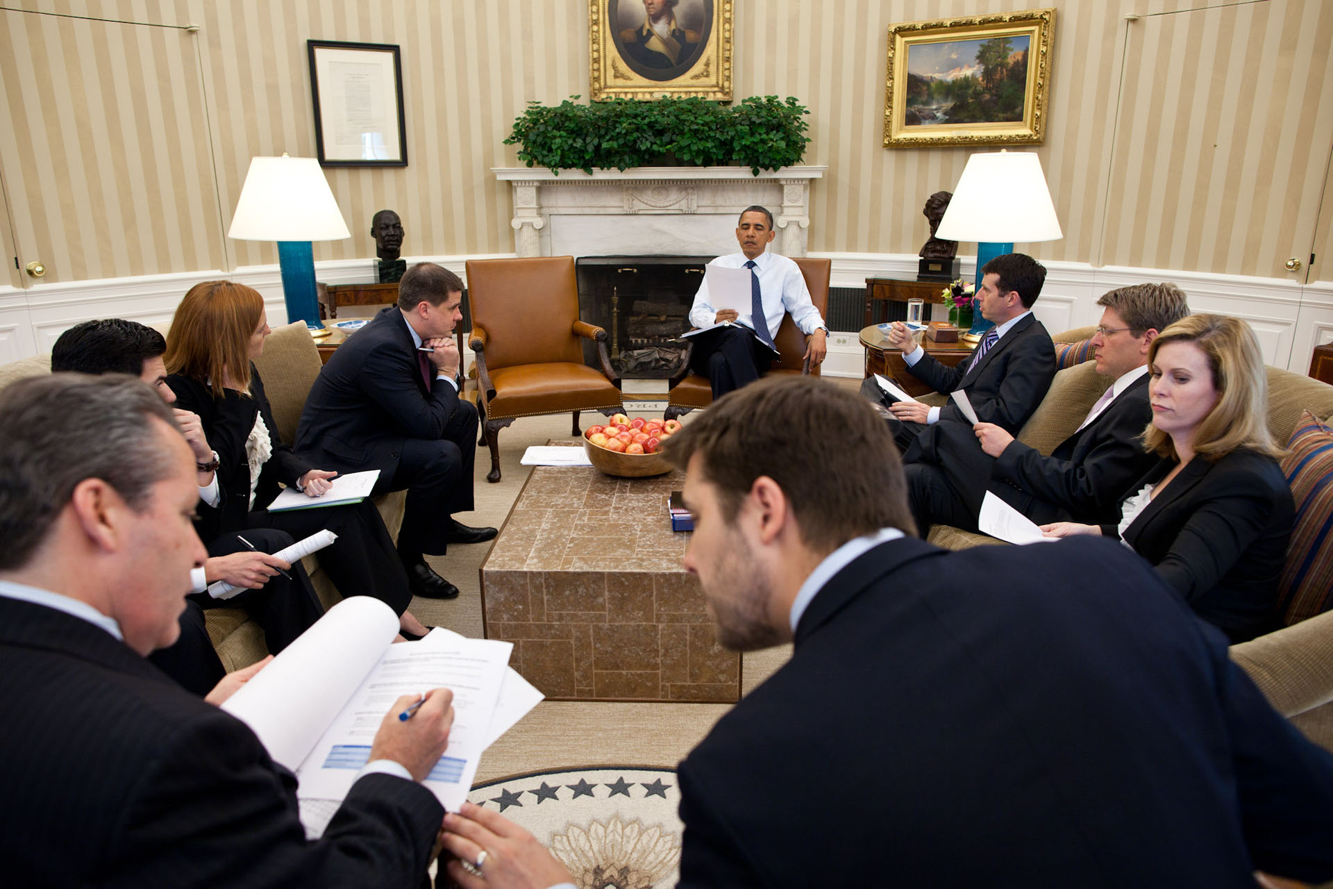 President Obama conducts a White House staff meeting in the Oval Office. Attendees include Press Secretary Jay Carney.